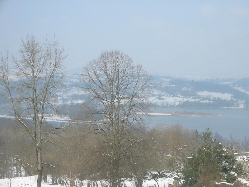 Aiguebelette lake (French Alps) author=Jean-Pierre Couffinhal date=Fev 2005 Permission of the author=April 2006